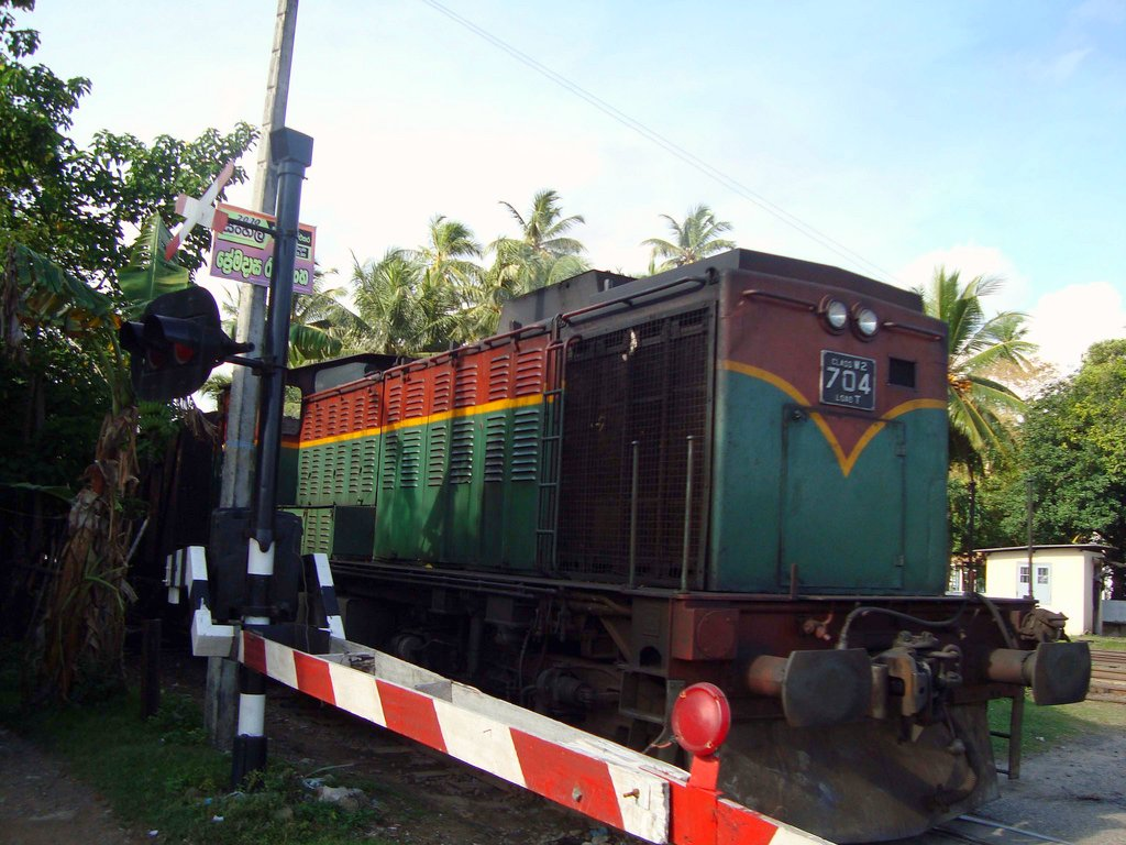 Karl Marx Class W2 Diesel-hydraulic Locomotive Engine builder: Karl marx (VEB) Paxman YJXL V16 Power: 1500hp Total units: 15 (703,716 & 729) Wheel arrengment: B-B Imported in: 1969